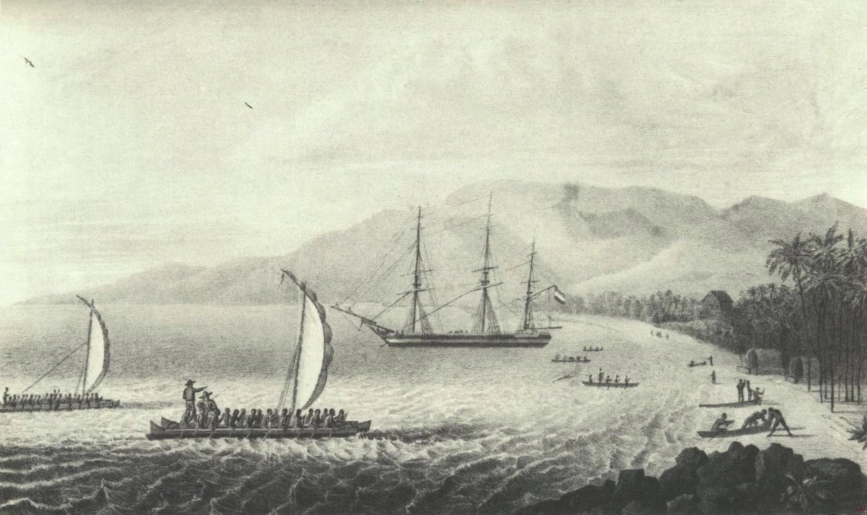 Governor Kuakini visiting the Wilhelmina and Maria at Kealakekua Bay, Hawaii. From Boelen's Reize, vol. 3.